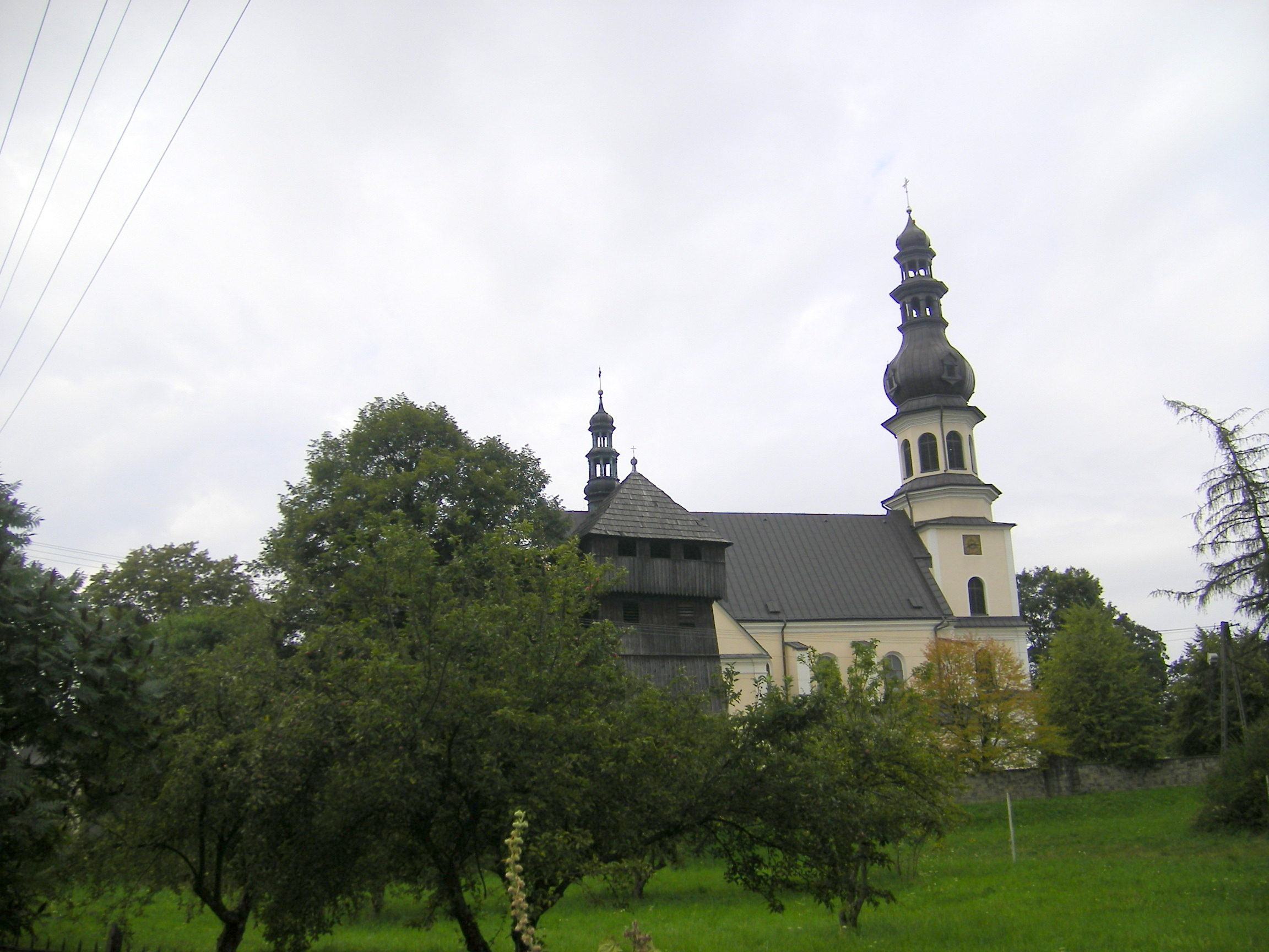 Wojnicz (Tarnów county), Catholic church of Saint Lawrence